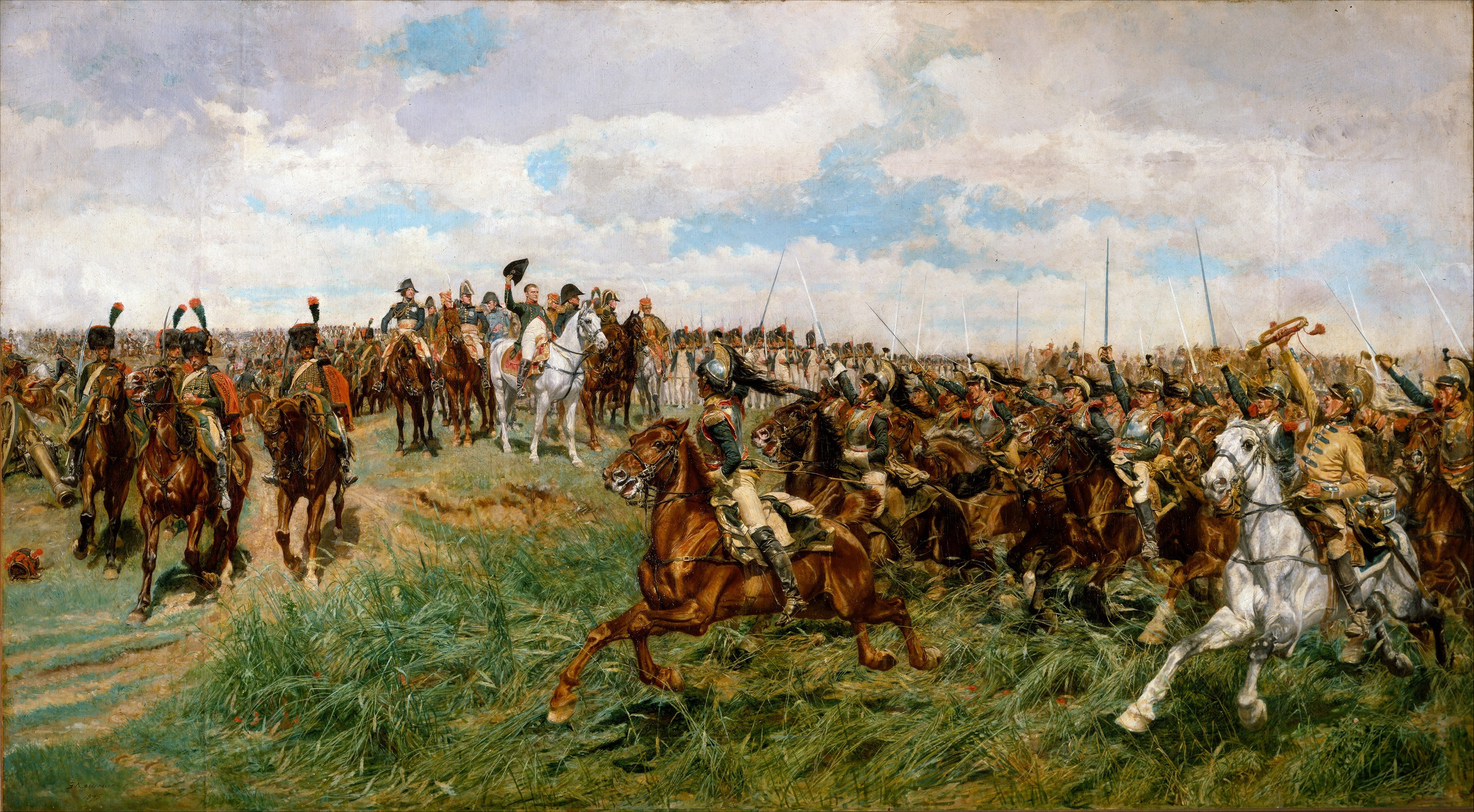 Painting by Ernest Meissonier (1815–1891), gift of Henry Hilton to the Metropolitan Museum of Arts, 1887. Meissonier, largely self-taught, established his reputation in the 1840s as a painter of small-scale genre scenes rendered in meticulous detail. An 1864 history painting, "1814, the Campaign of France" (Musée d'Orsay, Paris), signaled the artist's new interest in epic Napoleonic subjects. Countering that image of Napoleon in defeat, "1807, Friedland," Meissonier's largest and most ambitious painting, evokes one of the emperor's greatest victories. These two paintings were the only realized works in a projected cycle of five episodes in the life of Napoleon. "1807, Friedland" gained notoriety in 1876 when the American department store magnate Alexander T. Stewart (1803–1876) purchased it from the artist, sight unseen, for an astronomical sum. Judge Henry Hilton acquired the work at Stewart's estate sale and in 1887 bequeathed it to the Metropolitan Museum.